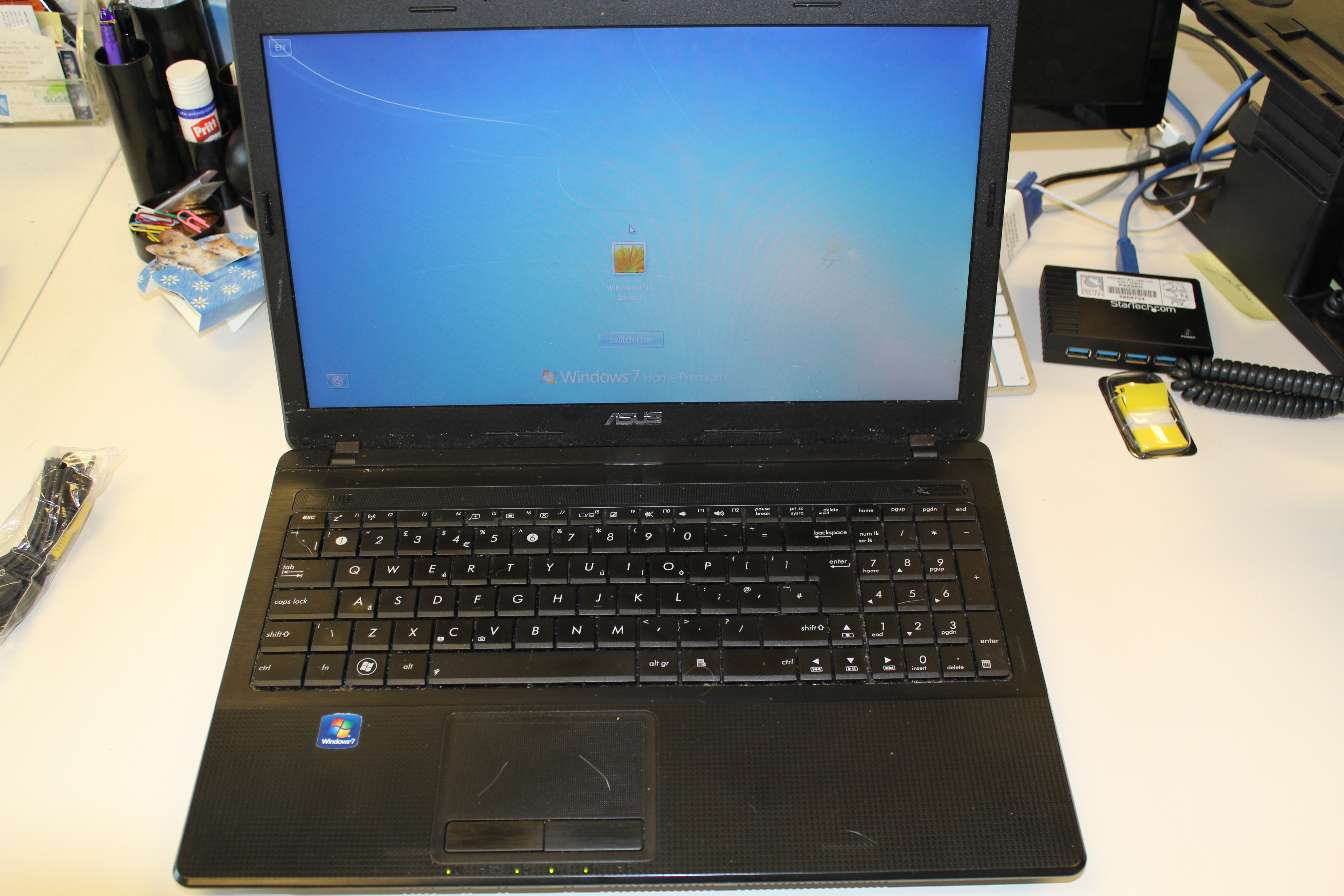 WMUK's Asus laptop.